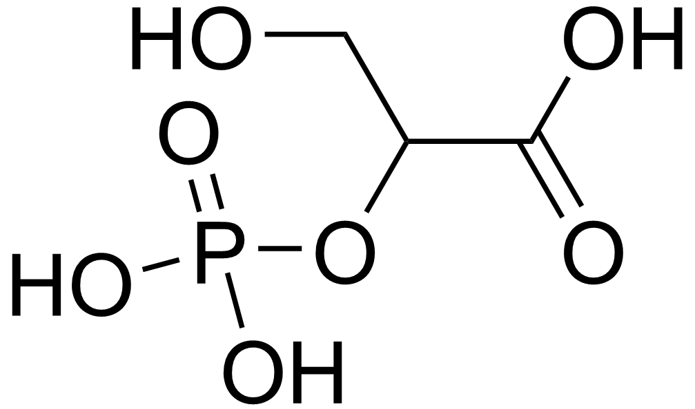 chemical structure of 2-phosphoglycerate